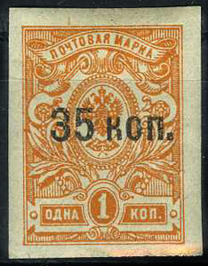 Issue of the Russian Crimean regional government, used. Michel #1.